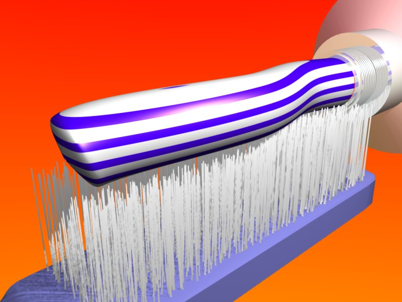 A Blender (vpre2.43) rendering of toothpaste on a toothbrush, with Wood-Texture.